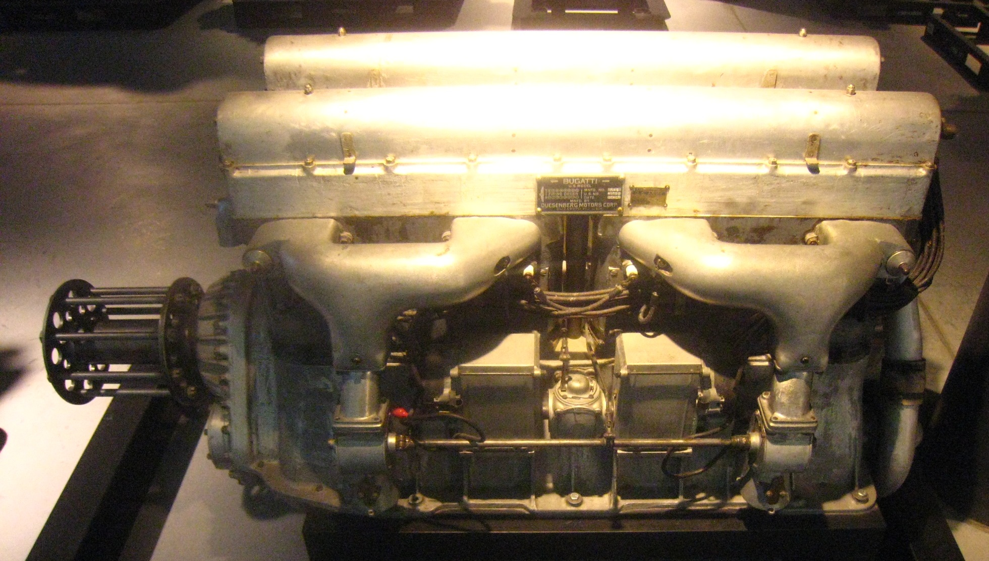 King-Bugatti-U16